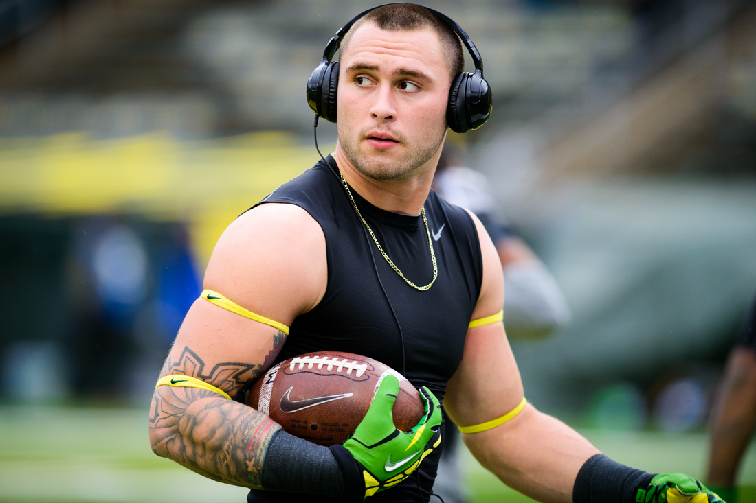 Oregon junior tight end Colt Lyerla (15) looks towards the student section during pre-game warmups. Lyerla is expected to play after missing the last game due to controversial circumstances. The No. 2 Oregon Ducks play the California Golden Bears at Autzen Stadium in Eugene, Ore. on Sept. 28, 2013. (Michael Arellano/Emerald)